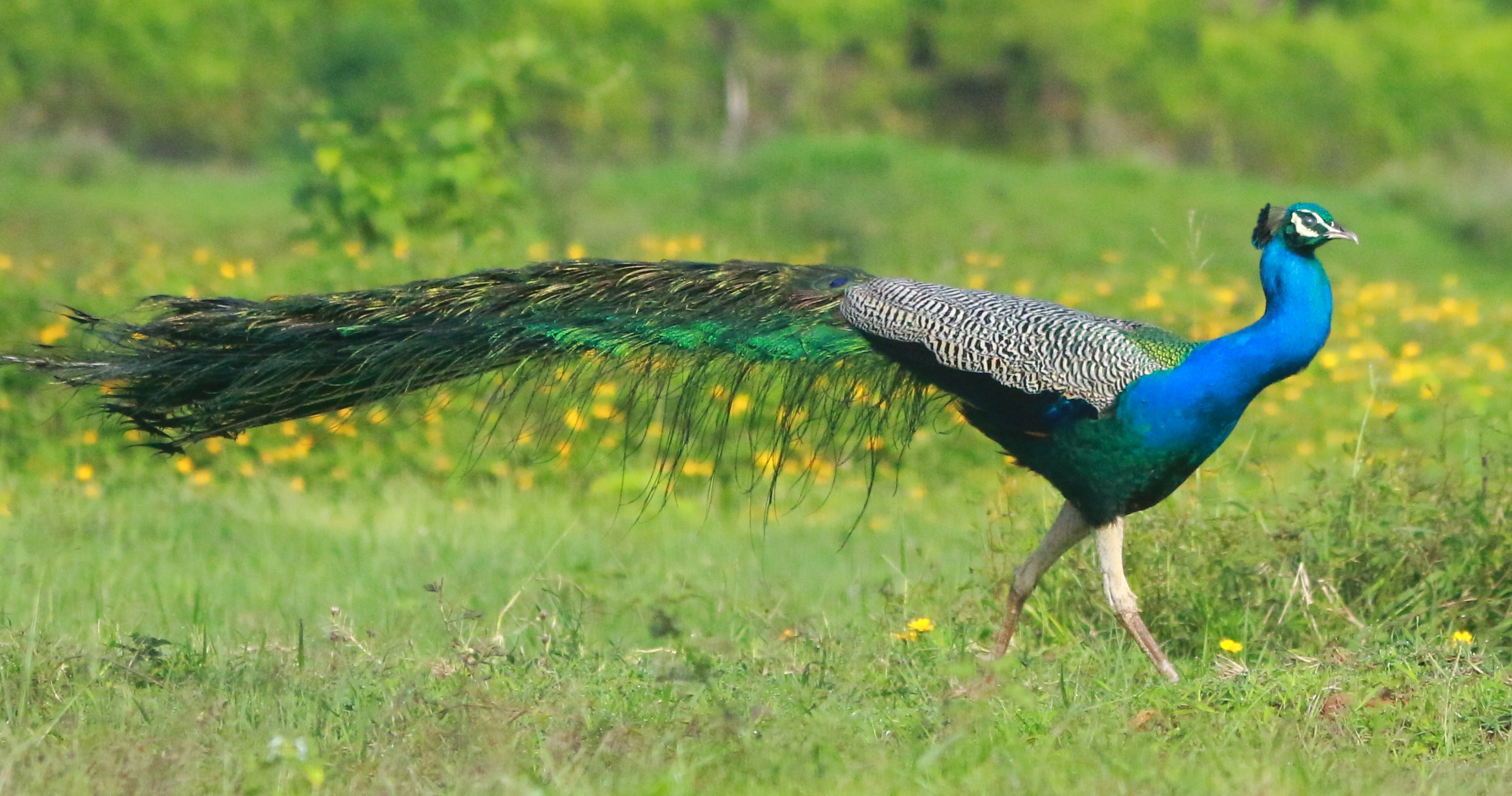 Indian peafowl,Pavo cristatus